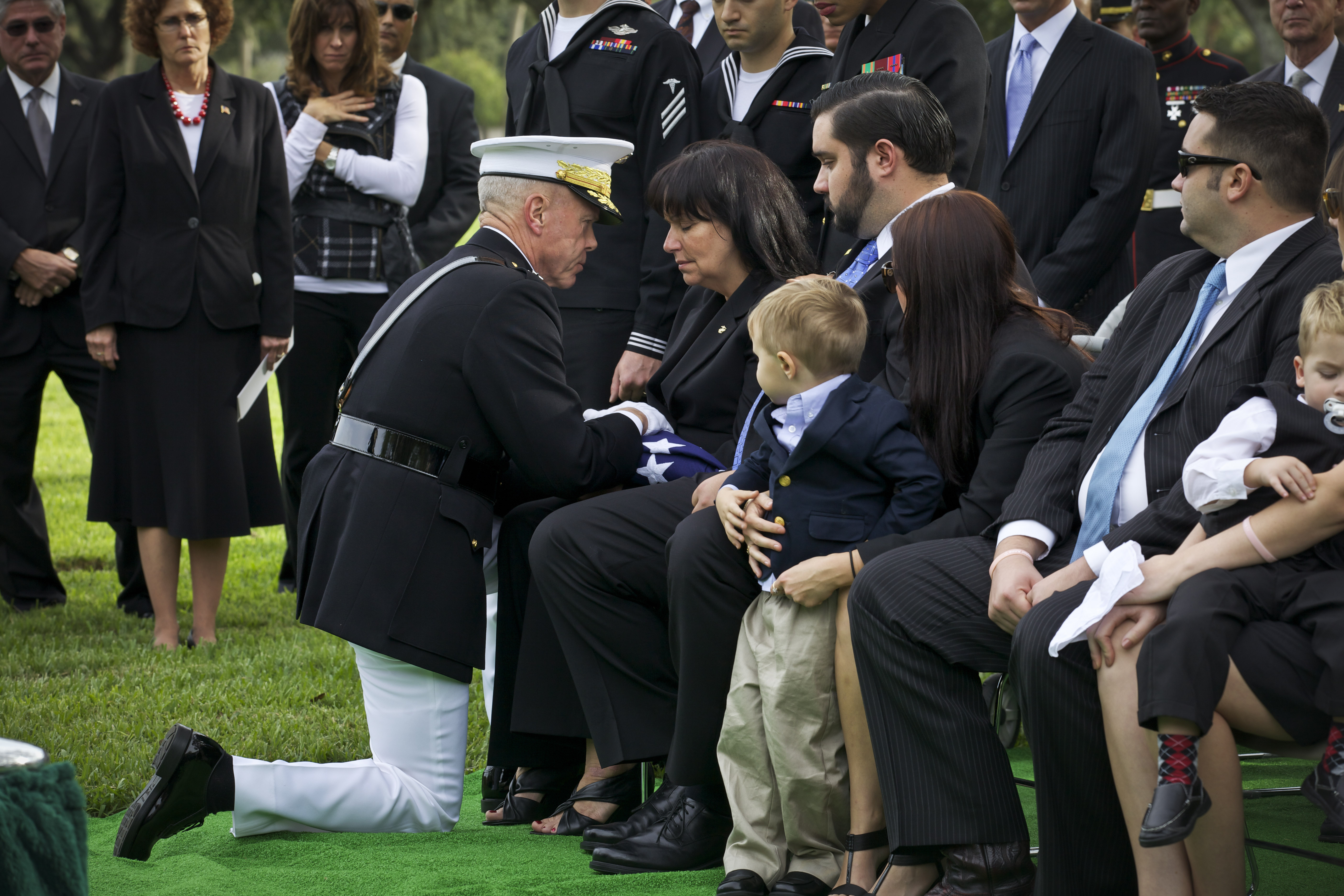 The 35th Commandant of the Marine Corps, Gen. James F. Amos, left, presents a folded American flag to Beverly Young during the funeral service for her husband, Congressman C.W. "Bill" Young, at the Pines National Cemetery in St. Petersburg, Fl, Oct. 24, 2013. Congressman Young, who served in the House of Representatives from 1971-2013, was posthumously appointed an Honorary Marine prior the services.